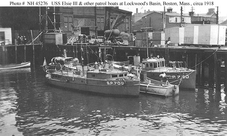 United States Navy patrol vessel USS Elsie III (SP-708) (foreground) at Lockwood's Basin in Boston, Massachusetts, during World War I. In the background is patrol vessel USS Lynx II (SP-730).